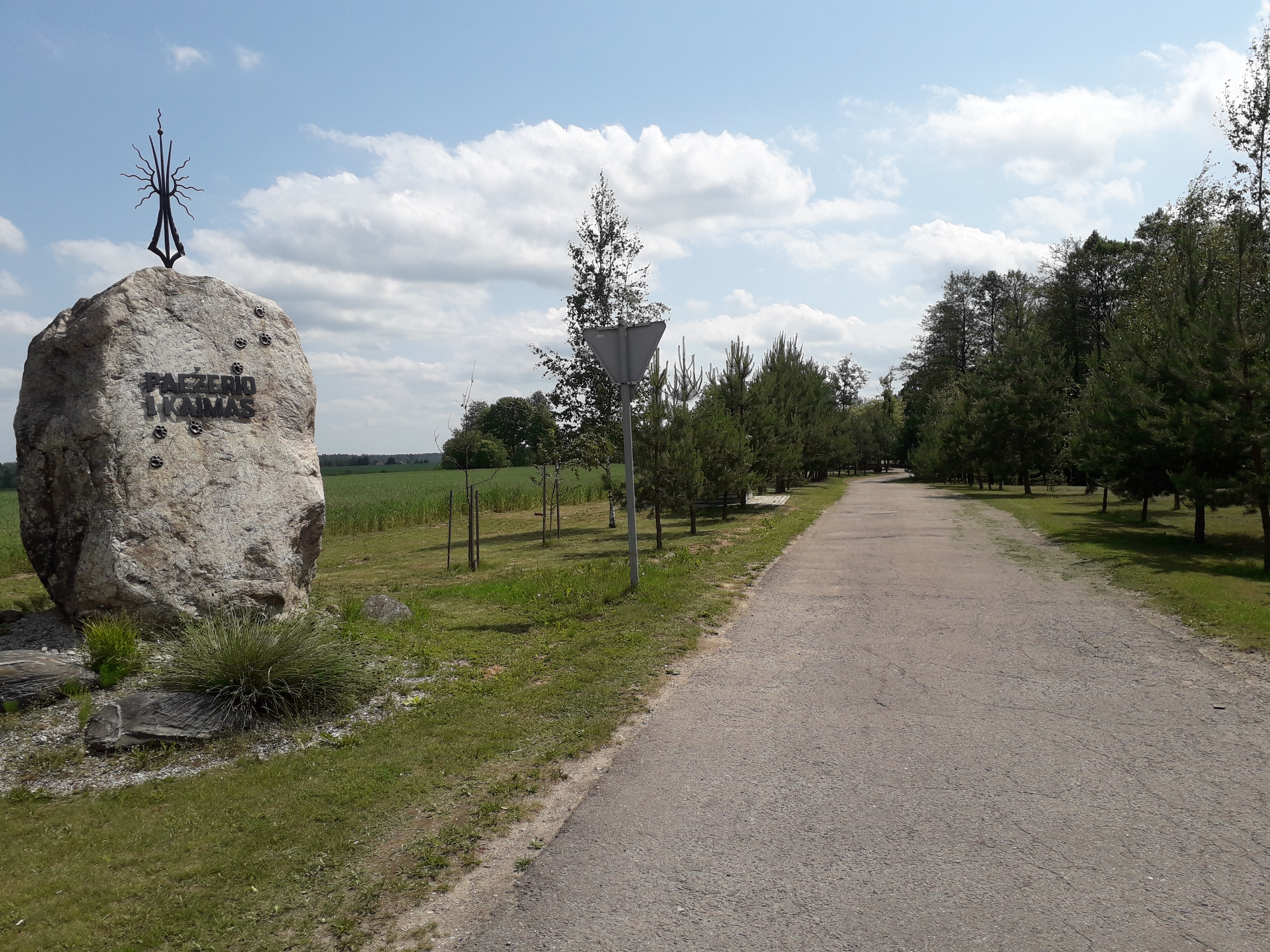 Road to Paežerys I, Panevėžys District, Lithuania